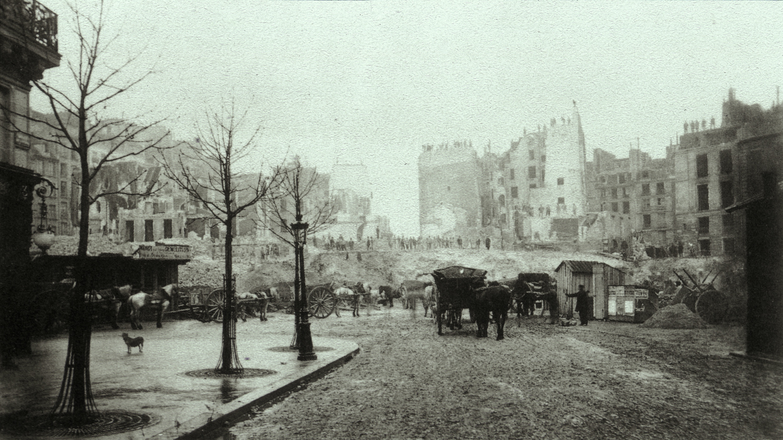 Construction for the Avenue de l'Opéra officially began in 1854, though it was not until 1873 that it received its name (it was originally called "Avenue Napoléon"). The avenue was initially opened in 1864 and situated between Rue Louis-le-Grand and the Boulevard des Capucines. It was extended, however, in 1867 and 1876, and was officially permanently opened at this latter date. It is now located between the Place du Théâtre-Français and the Place de l'Opéra. Like most of Haussmann's work, the construction of the Avenue de l'Opéra resulted in massive demolition of certain quarters and residences, including the Butte des Moulins in the first arrondissement. By 1876, the total construction costs reached 9.8 million dollars, and 168 homes were destroyed. Photographer Charles Marville was best known for capturing images of the older Parisian quarters prior to urbanization. In 1850, Marville was hired by the city of Paris to document the changes brought on during the demolition and reconstruction of the Haussmann era. He was named the official photographer of Paris in 1862.